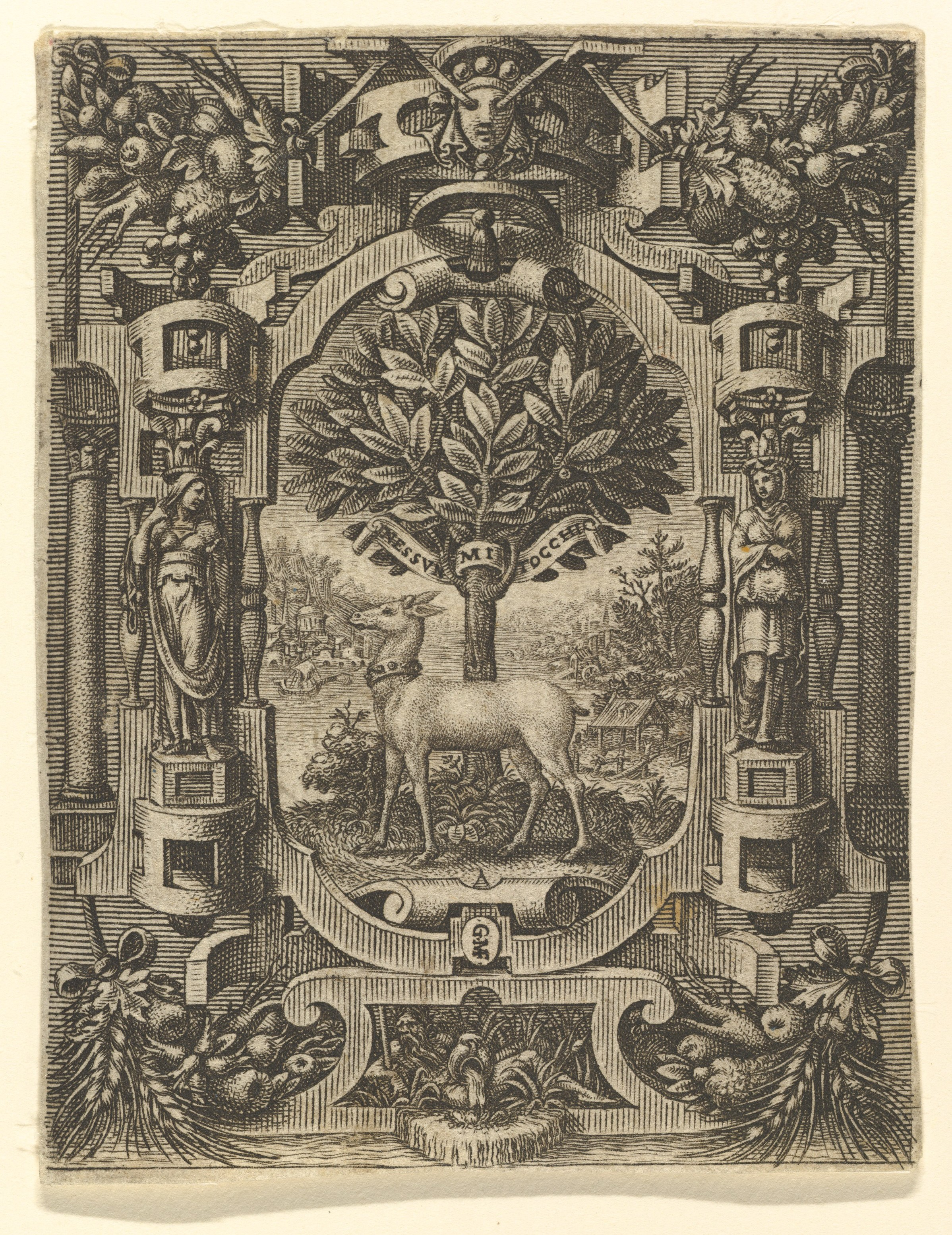 Print; Prints